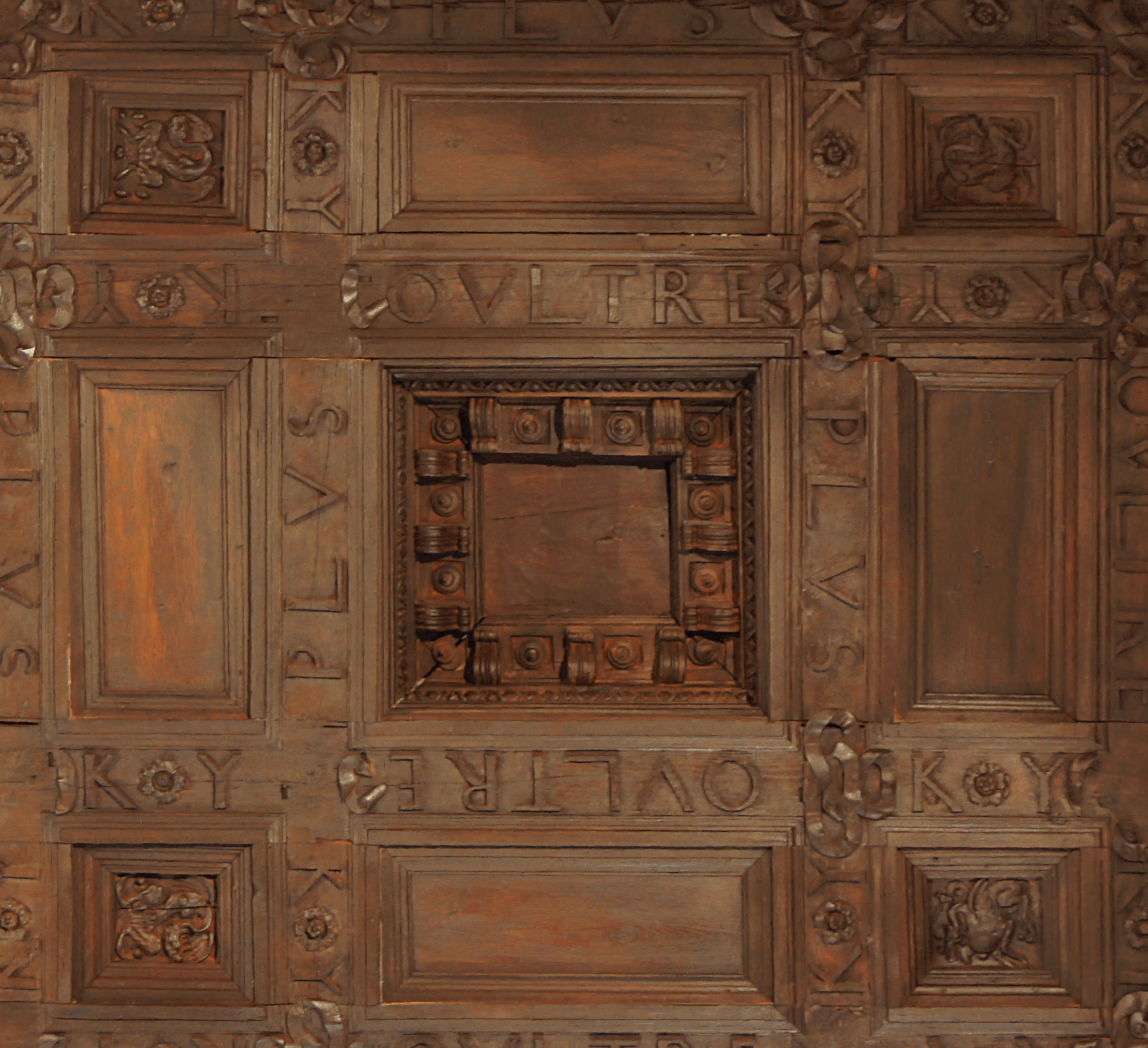 Part of a coffered wooden ceiling in the "Emperors Chamber" of Alhambra of Granada, Spain. It shows the motto "Plus Oultre" of Charles V, and the letters "K" for Karolus, an Y for Isabel (of Portugal), his wife.